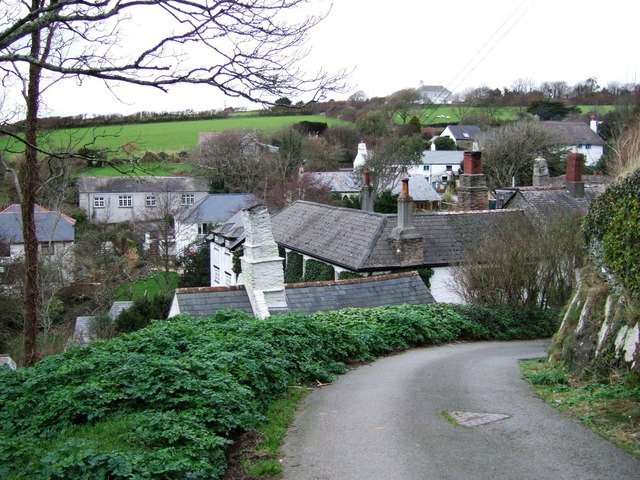 Ringmore A view from the back lane across the little village, set at the head of valley just a kilometre from the sea. The crooked chimney belongs to Hillside Cottage, and to its right is the Journey's End inn.